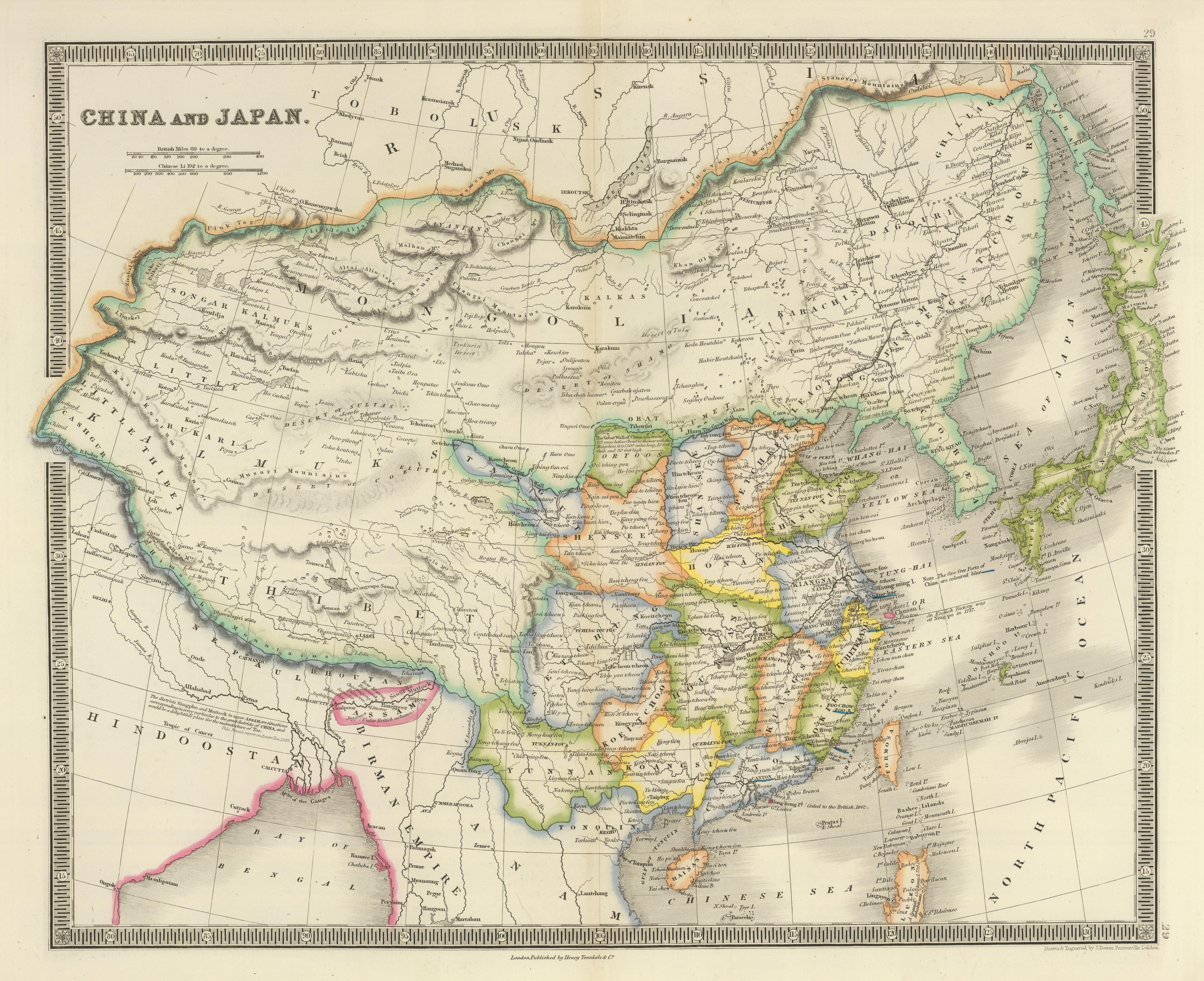 China and Japan in 1844, by John Nicaragua Dower. Published in 1844 World Atlas by Henry Teesdale and Co., London. Provinces of China proper are in various colors with "Chinese Tartary" (Manchuria, Korea, Mongolia, and Tibet) in blue-green.